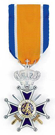 The Knight's Cross with swords of the Order of Orange-Nassau